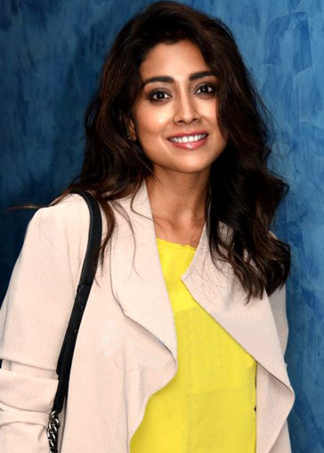 Shriya Saran graces the screening of Sonata.